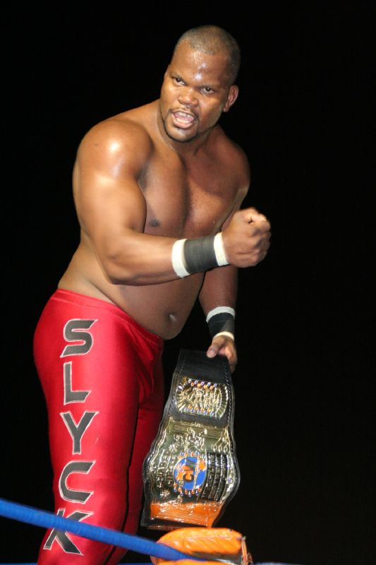 Professional wrestler Slyck Wagner Brown at a 2CW show on August 15, 2008, with the 2CW Heavyweight Championship.